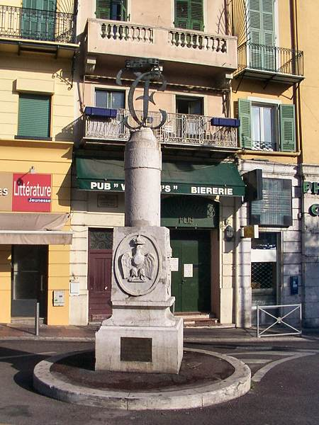 Stele Charles-Felix (Nice)